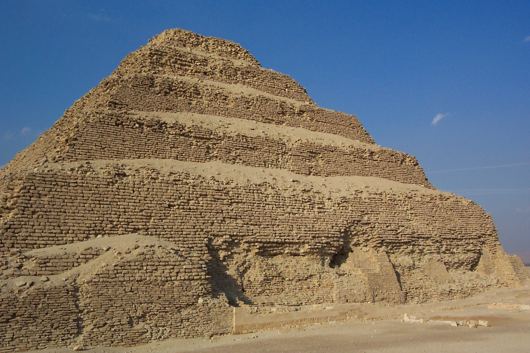 The Pyramid of Djoser in Saqqara, Egypt. free license picture